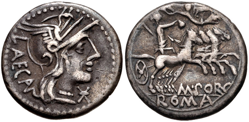 M. Porcius Laeca. 125 BC. AR Denarius (18mm, 3.82 g, 6h). Rome mint. Helmeted head of Roma right; mark of value below chin. Libertas driving quadriga right, holding vindicta, reins, and pileus; above, Victory flying left, crowning Libertas. Crawford 270/1; Sydenham 513; Porcia 3. VF, toned, a few scratches under tone.